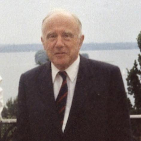 together with John Archibald Wheeler in front of lake in Holstein before the Hermann Weyl-Conference 1985 in Kiel, Germany